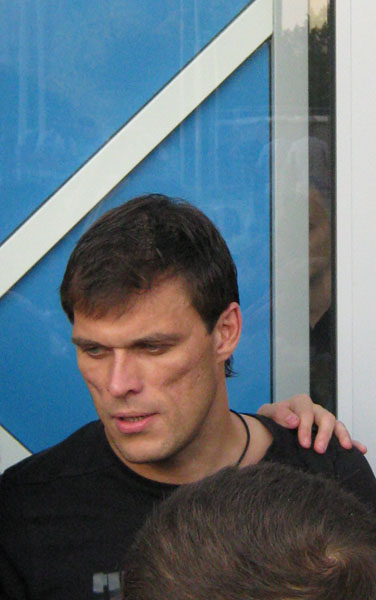 Vyacheslav Kernozenko after open training of FC Dnipro Dnipropetrovsk on Dnipro-Arena